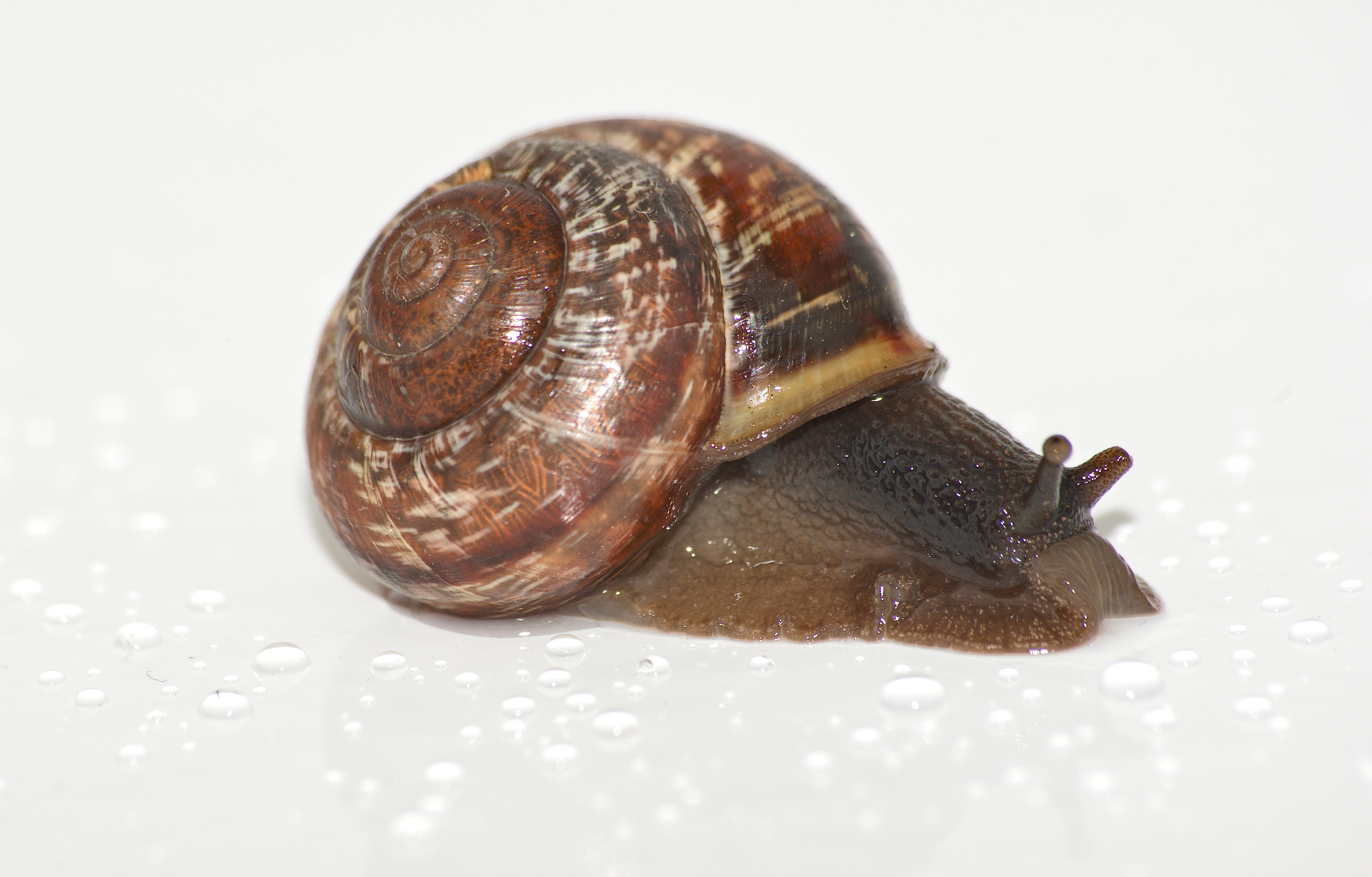 snail Could it be Arianta arbustorum? --Snek01 (talk) 11:17, 10 September 2009 (UTC)